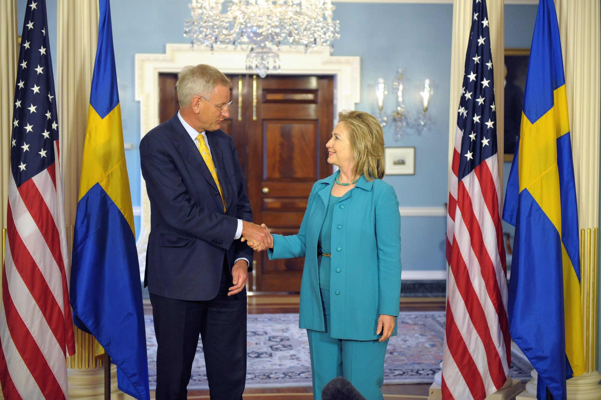 U.S. Secretary of State Hillary Rodham Clinton shakes hands with Swedish Foreign Minister Carl Bildt after their bilateral meeting, at the U.S. Department of State in Washington, D.C., on April 29, 2011. [State Department photo/ Public Domain]